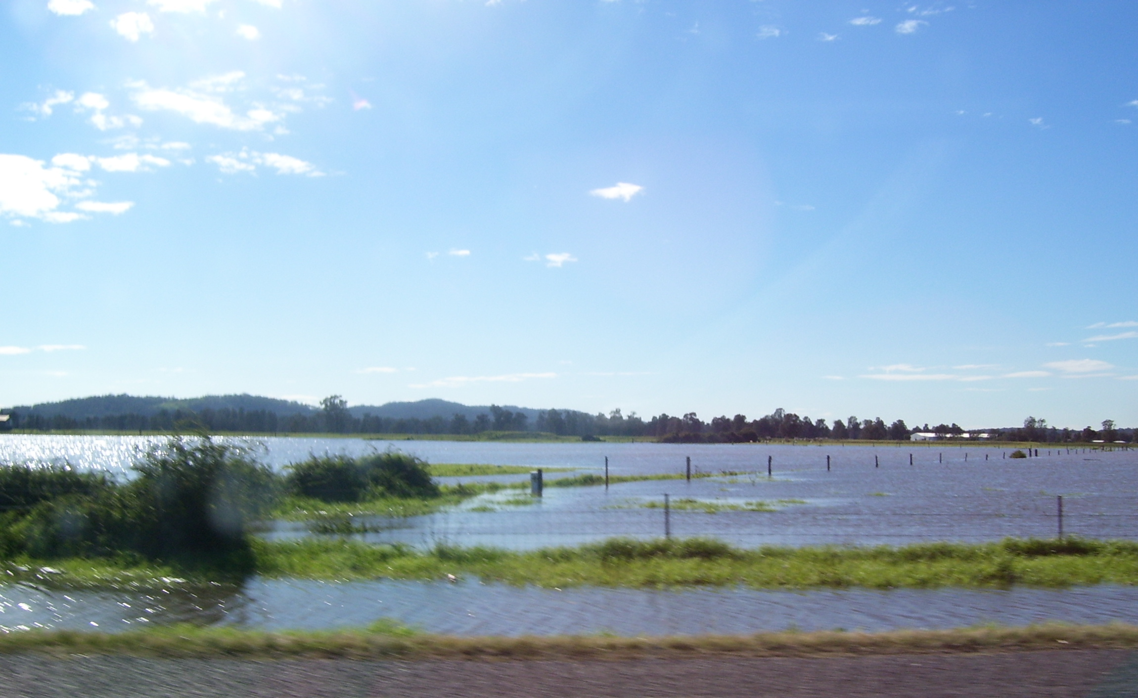 Flooding of the Hunter and Williams Rivers in Nelsons Plains during 2007. This view is from Seaham Road, looking to the east.